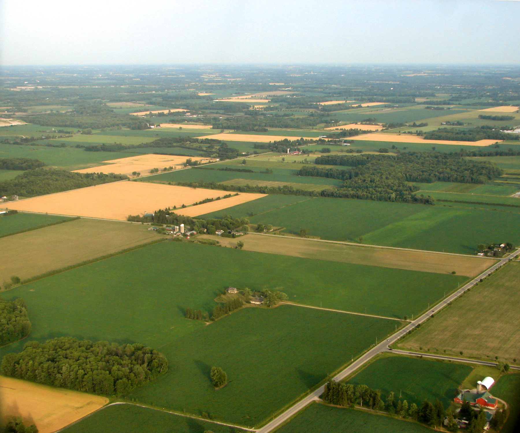 Aerial view of Thames Centre, Ontario, Canada